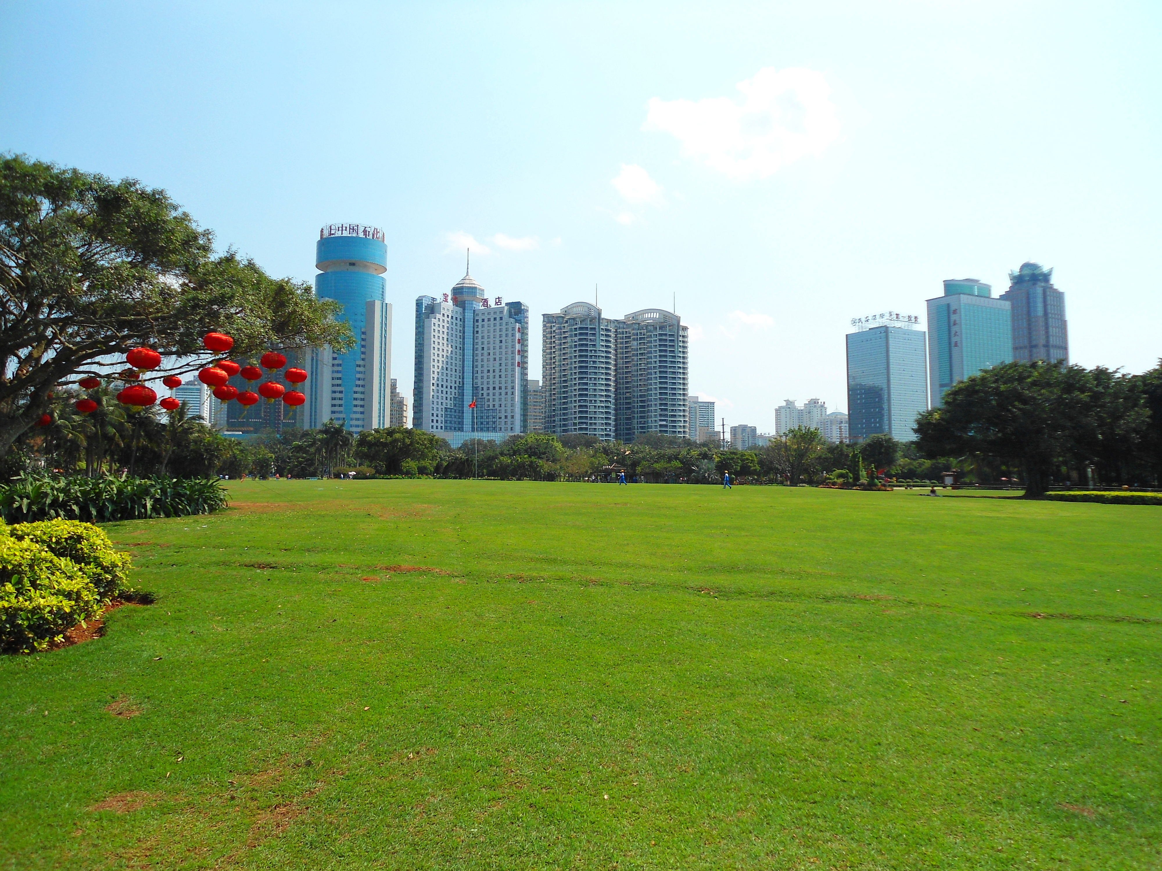 Evergreen Park, Haikou, Hainan Province, People's Republic of China